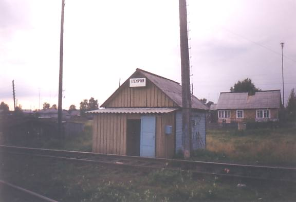 Gremyachiy, Totemsky District, Vologda Oblast